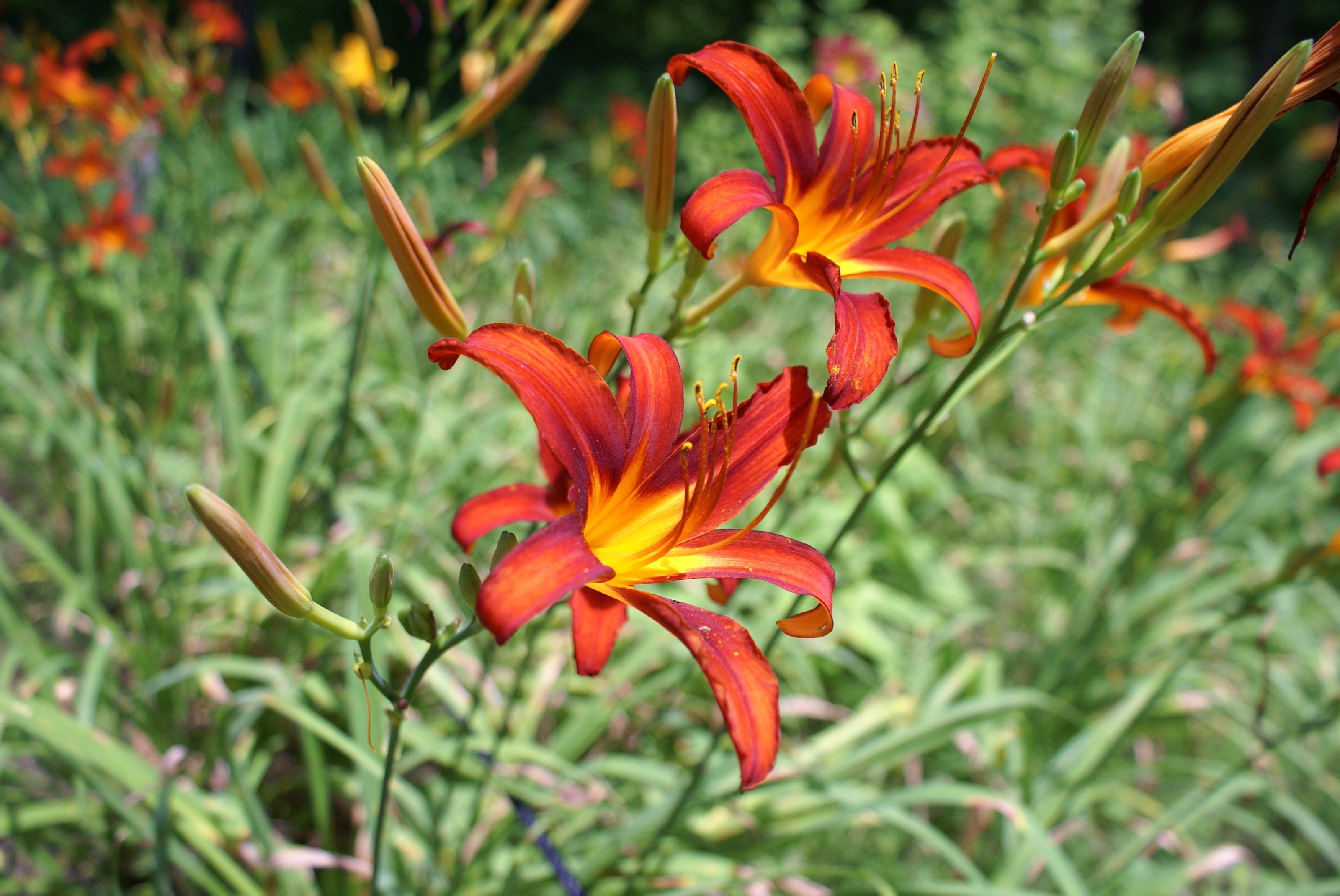 at Tajima Plateau Botanical Gardens (Torokawadaira) in Kami, Hyogo prefecture, Japan